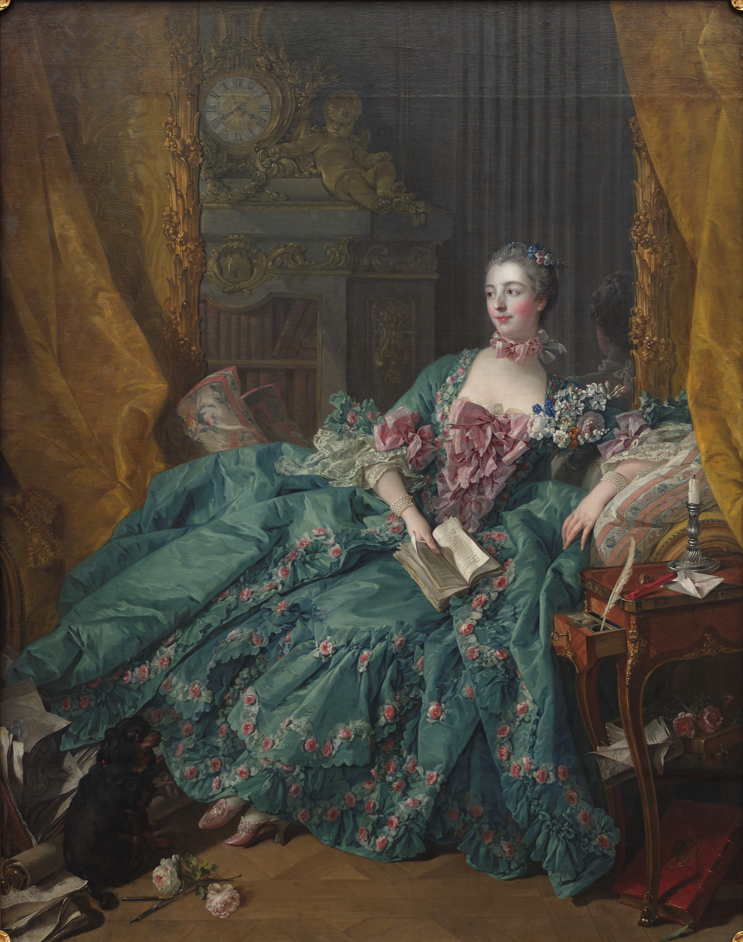 Portrait of Madame Pompadour